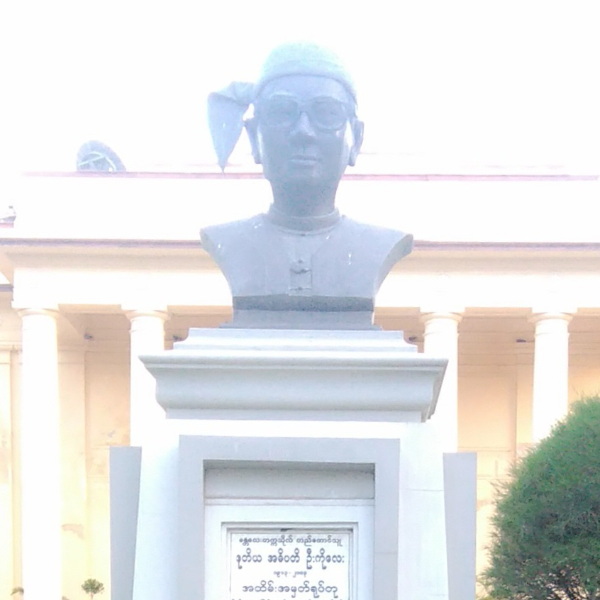 U Ko Lay Statute